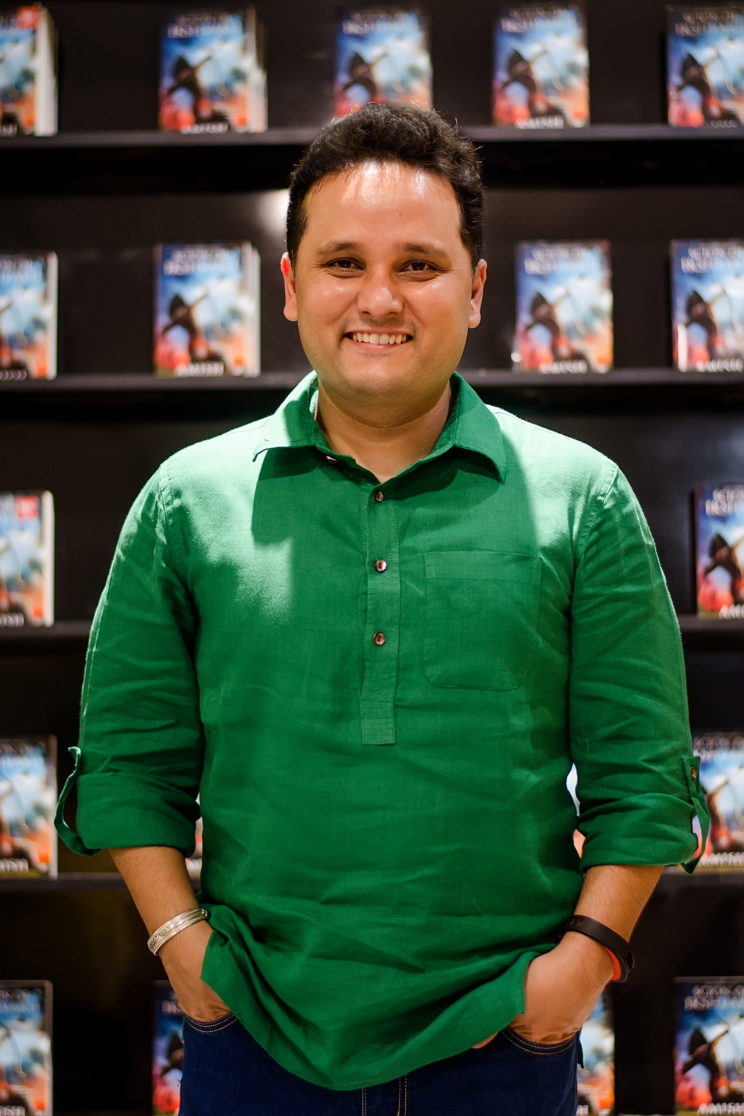 Amish Tripathi